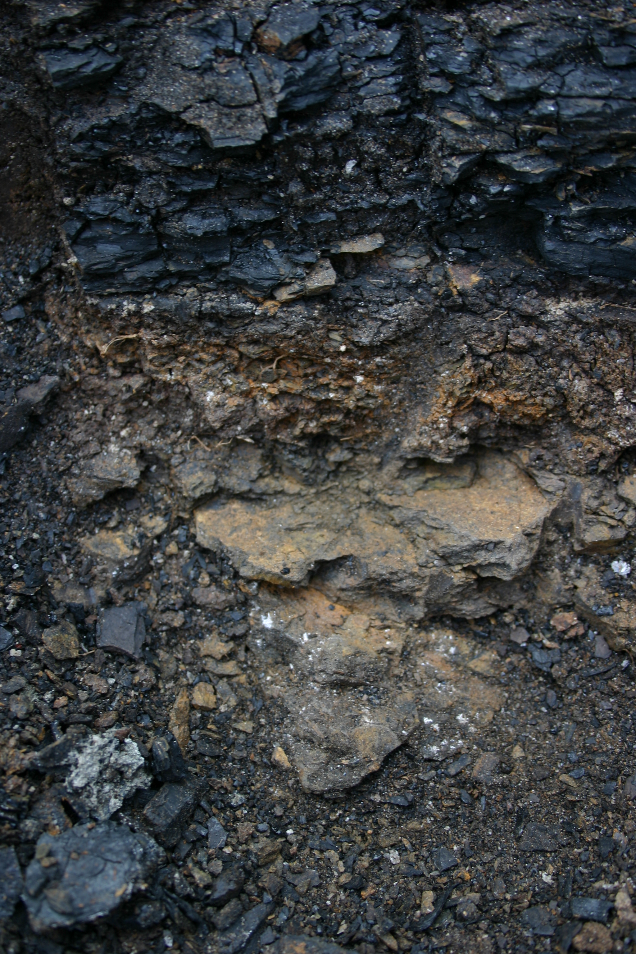 K-Pg boundary layer as preserved in the Scollard Formation (Maastrichtian - Paleocene), Red Deer River Valley, Alberta